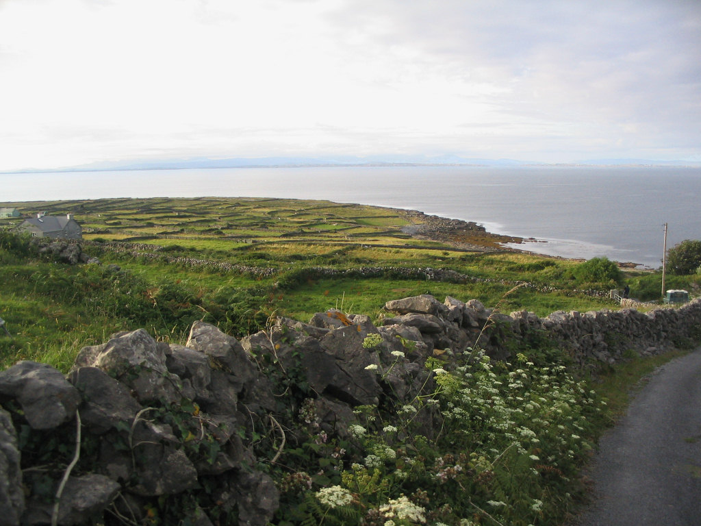 Picture of Inishmore, Aran Islands, Ireland, august 2006 Photo des champs d'Inishmore dans les iles aran en Irlande, aout 2006